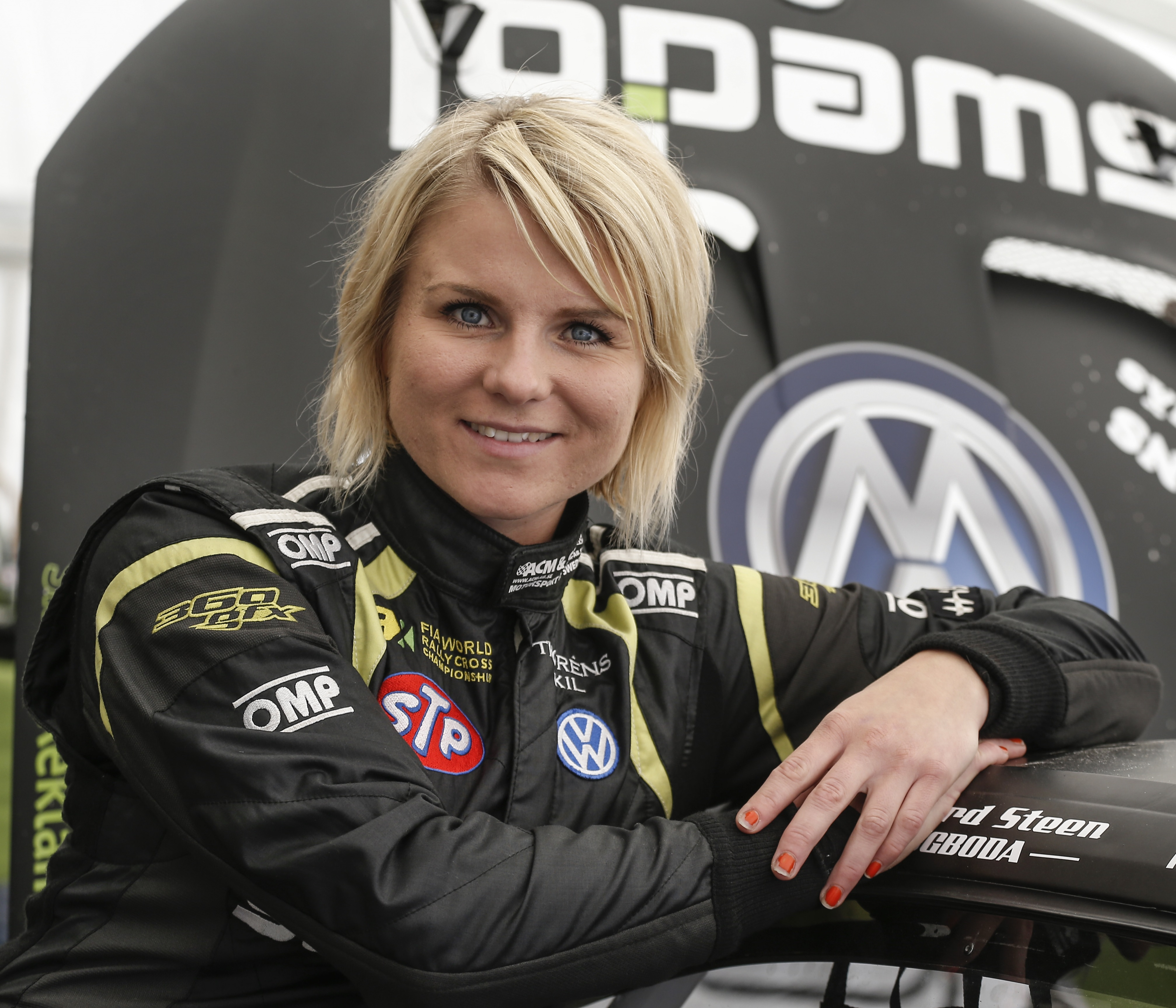 Swedish rallycross driver Ramona Karlsson at Round 5 of the 2015 Swedish Rallycross Championship at Solvalla Travbana.